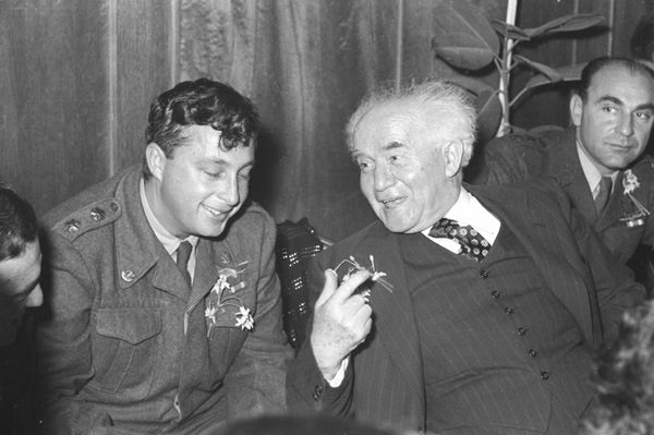 Ariel Sharon , People of Israel